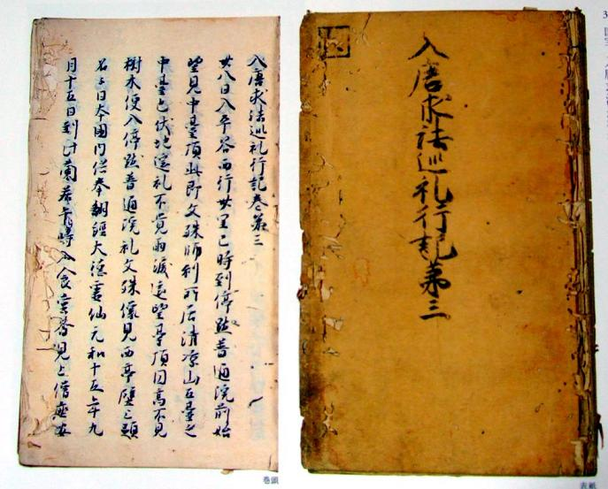 Cover and page of Ennin's Diary: The Record of a Pilgrimage to China in Search of the Law / 入唐求法巡禮行記. This a cover and page of the four volume-book of the monk Ennin (圓仁/ 円仁?, AD 793 or 794 – 864). Original manuscript written ca. 838. Version shown in the picture, unknown.